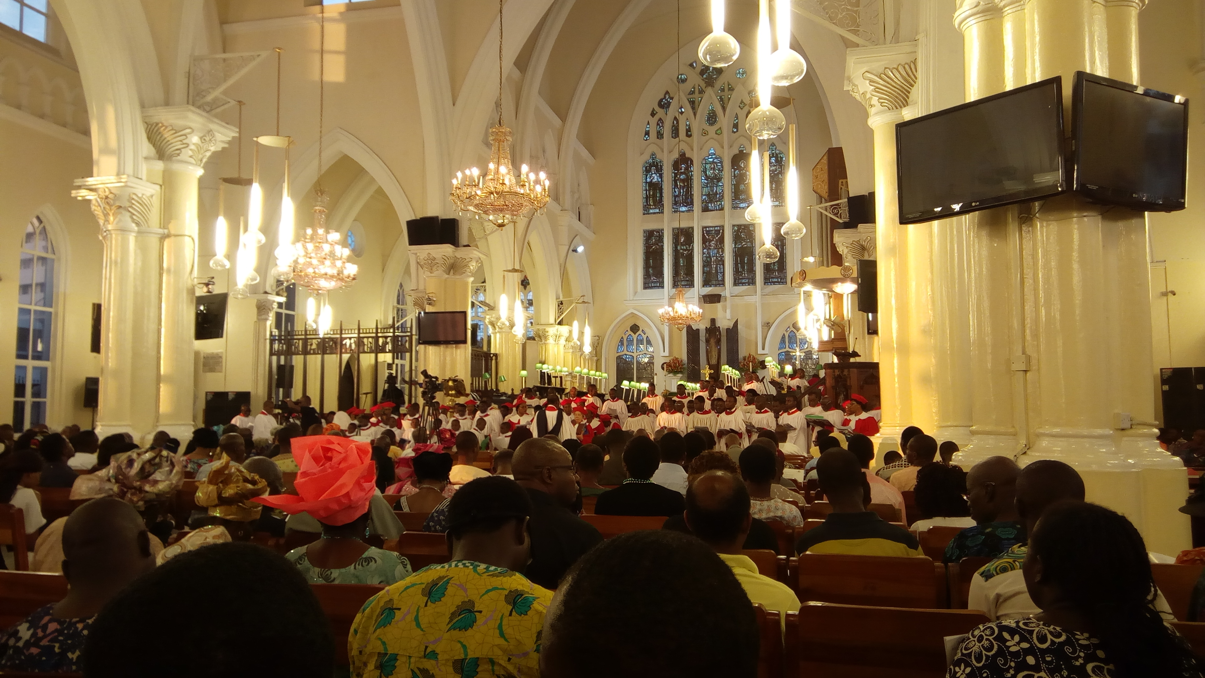 The interior view of the cathedral church of christ, marina, Lagos This is an image of "African people at work" from Nigeria